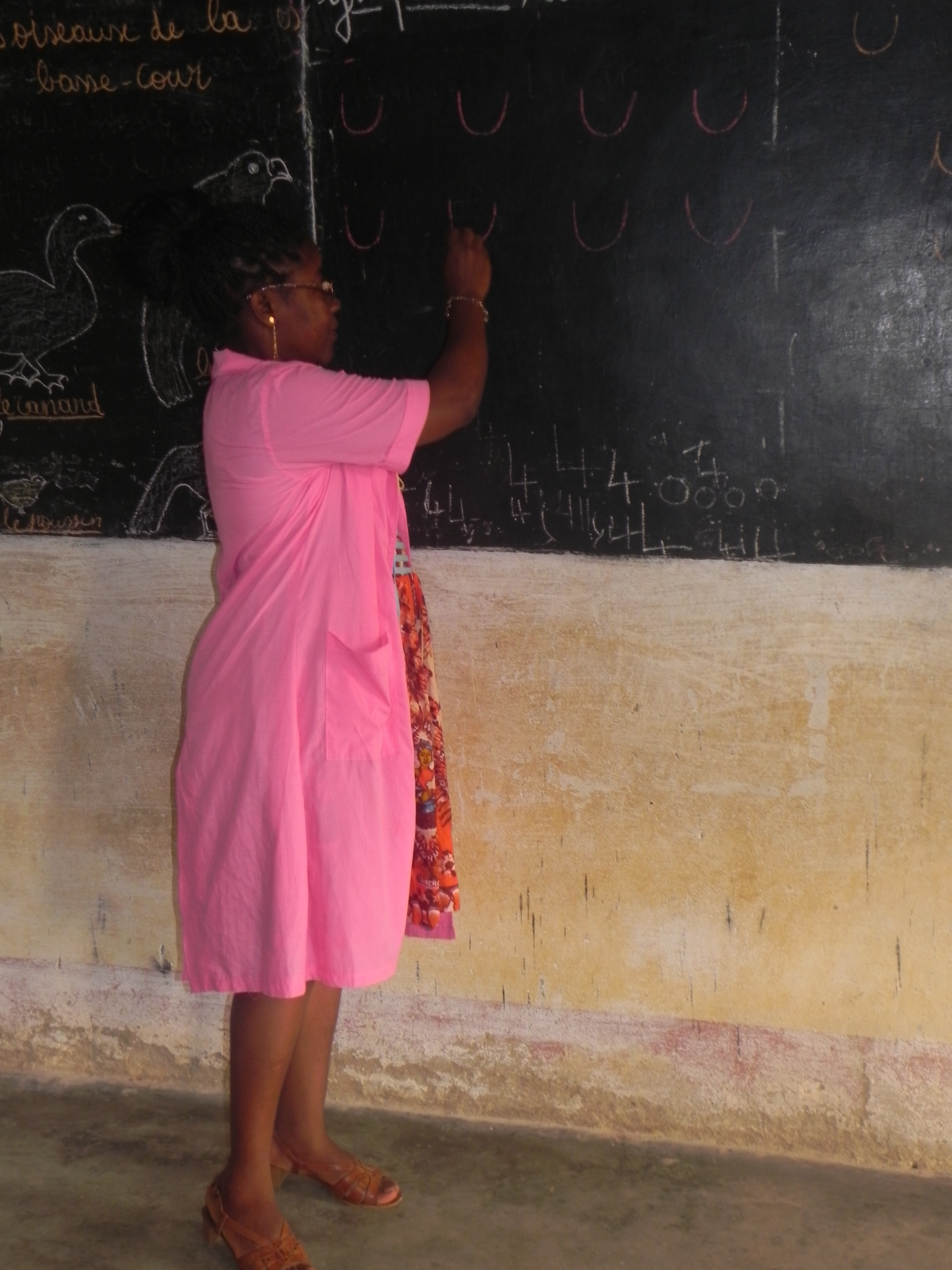 Une enseignante d'une école primaire dans la localité d'Edea au Cameroun This is an image of "African people at work" from Cameroon